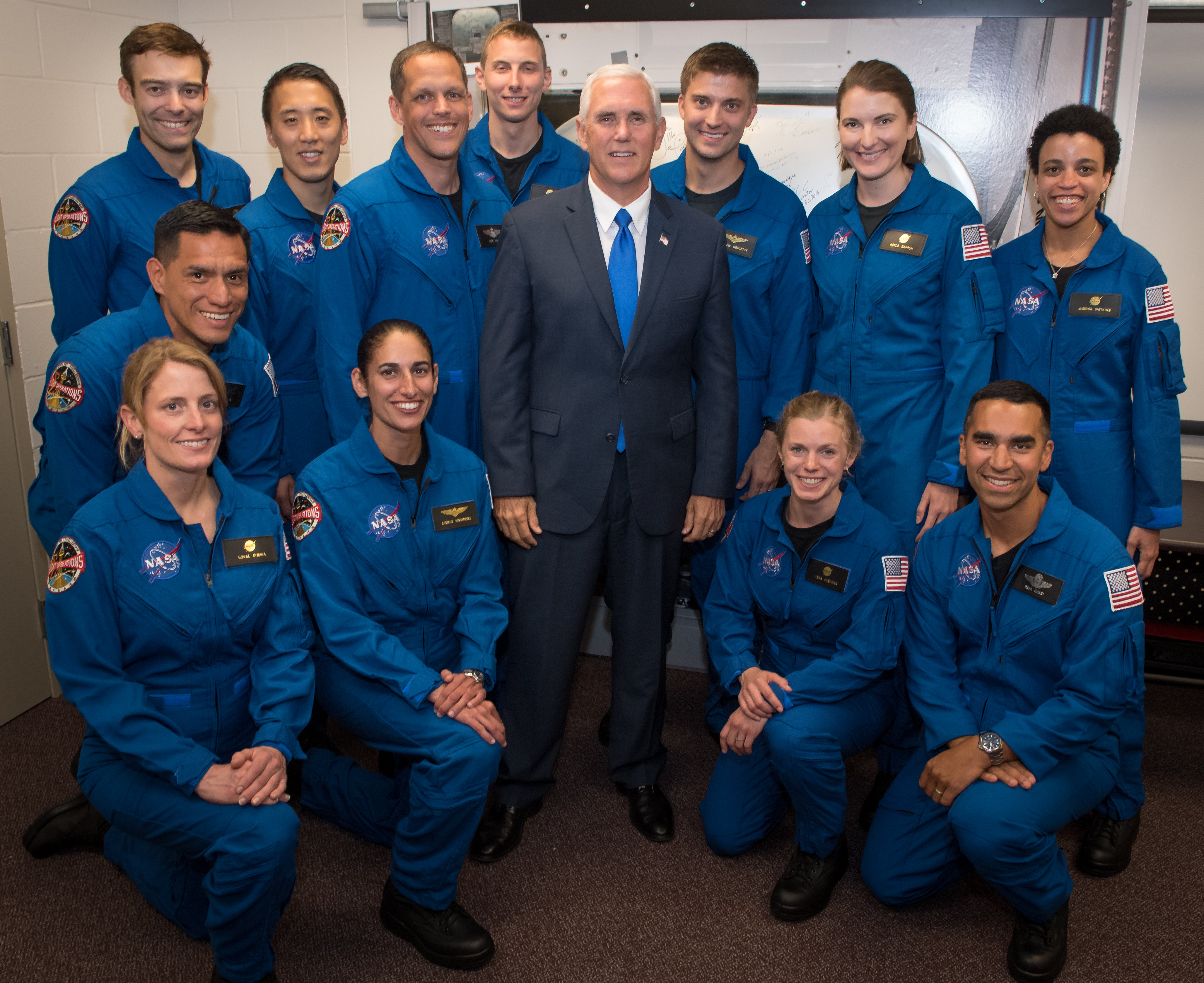 Vice President Mike Pence poses for a group photograph with NASA's 12 new astronaut candidates, Wednesday, June 7, 2017 at NASA’s Johnson Space Center in Houston, Texas. NASA astronaut candidates, standing from left, Robb Kulin, Jonathan Kim, Robert Hines, Warren Hoburg, Matthew Dominick, Kayla Barron, Jessica Watkins, from left kneeling, Francisco Rubio, Loral O’Hara, Jasmin Moghbeli, Zena Cardman, and Raja Chari. After completing two years of training, the new astronaut candidates could be assigned to missions performing research on the International Space Station, launching from American soil on spacecraft built by commercial companies, and launching on deep space missions on NASA’s new Orion spacecraft and Space Launch System rocket.